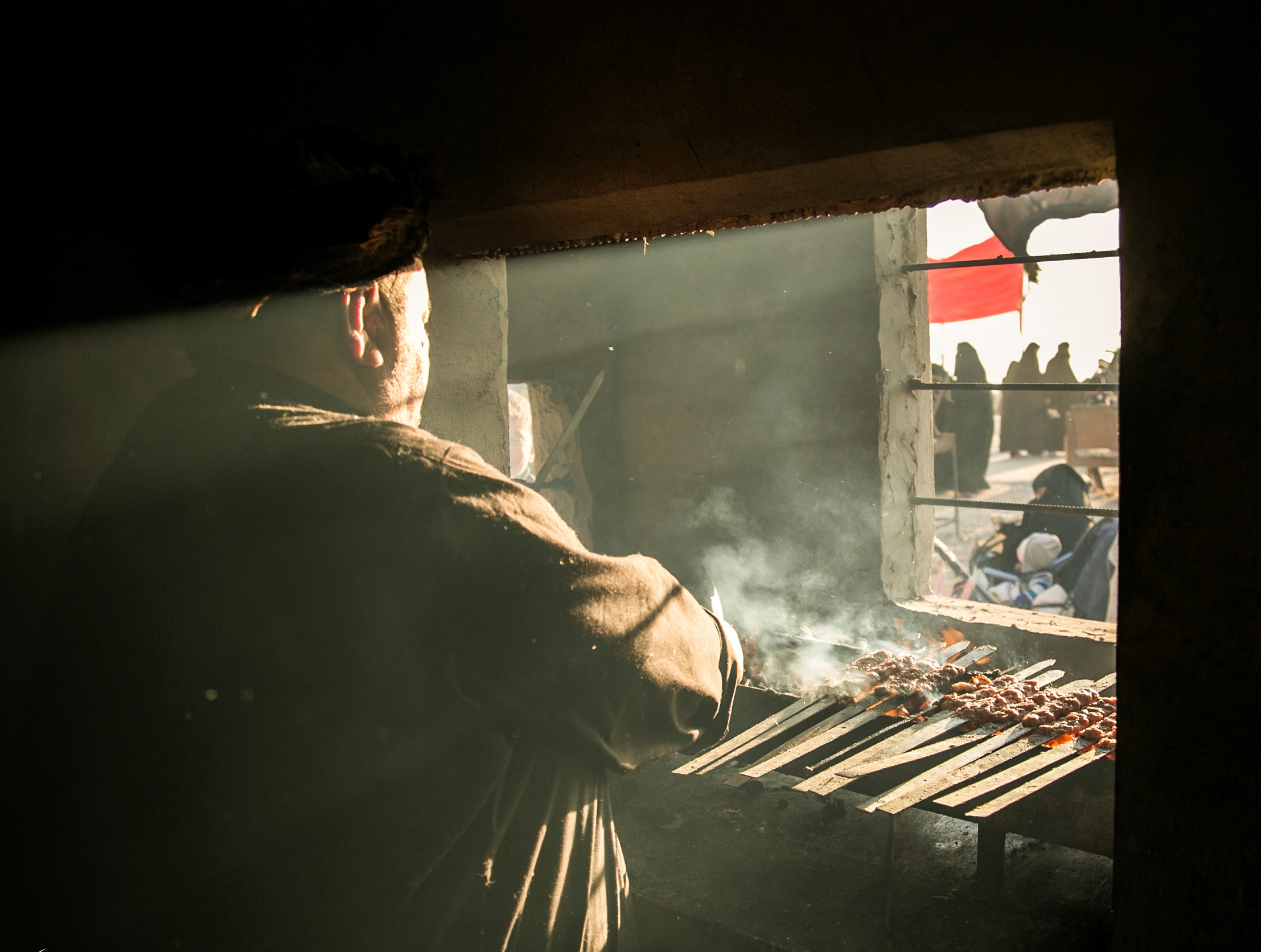 A man cooking barbecue for pilgrims on Arba'een Pilgrimage path